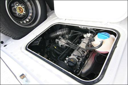 Picture of the Brazilian version of the Vw Type 2, '06 model, watercooled. In detail the new 1.4l engine.